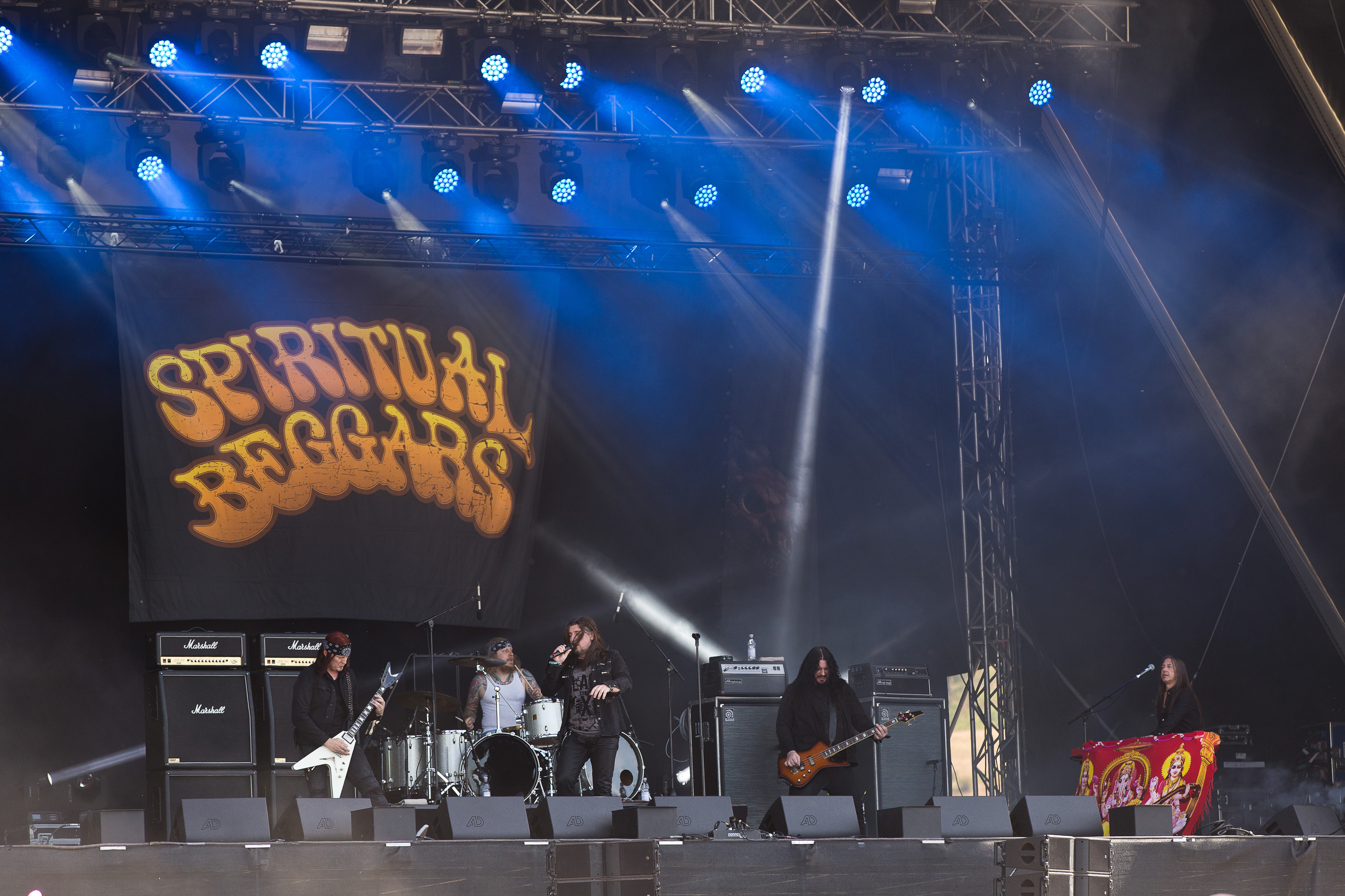 The Swedish stoner metal band Spiritual Beggars at the Rockharz Open Air 2016 in Ballenstedt/Germany.